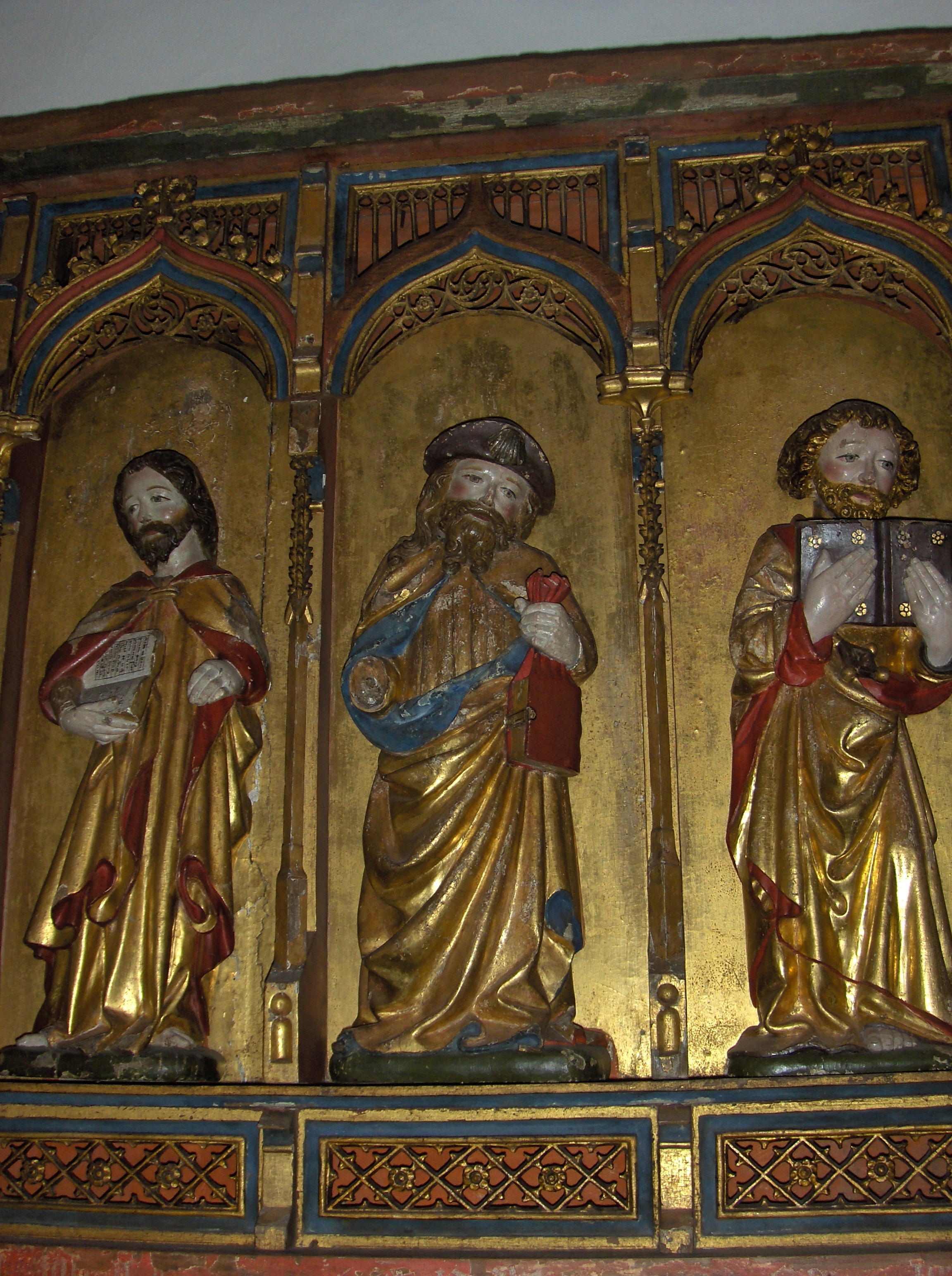 This image was provided to Wikimedia Commons by Nationalmuseet as part of an ongoing cooperative project. The artifact represented in the image is part of the collection of Nationalmuseet. English | македонски | +/−